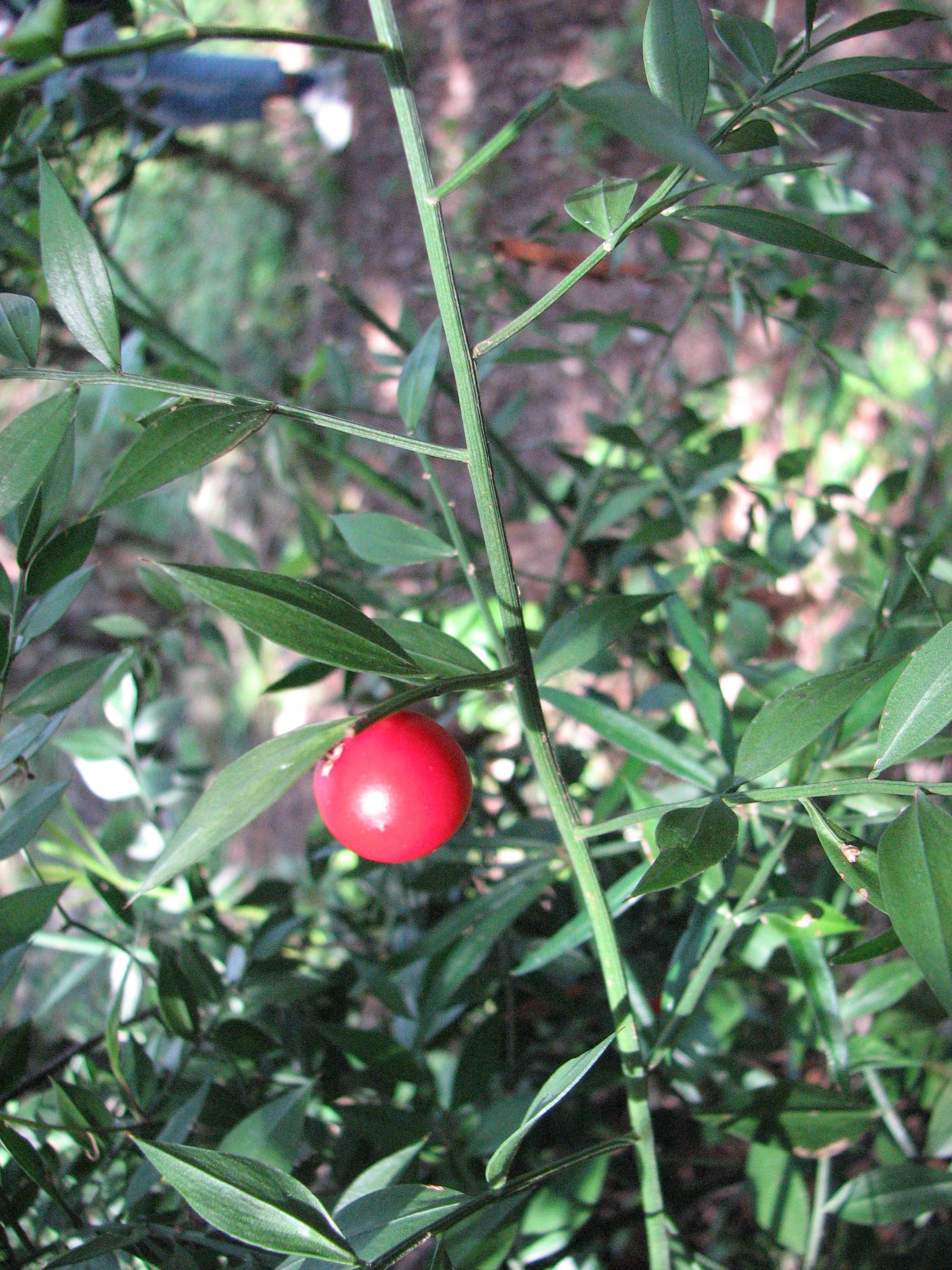 from Corsica taken by author ruscus aculeatus